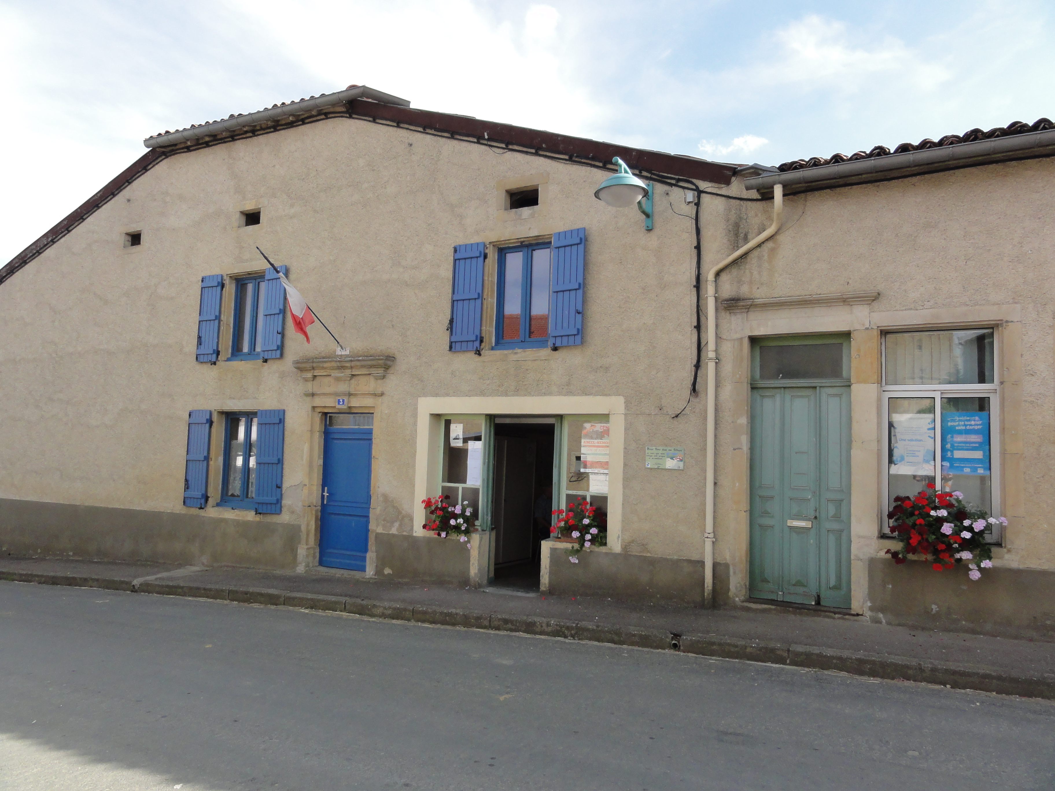 Saint-Pierrevillers (Meuse) mairie